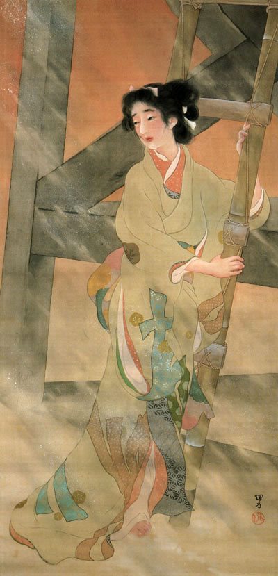 Oshichi, by Ikeda Terukata.